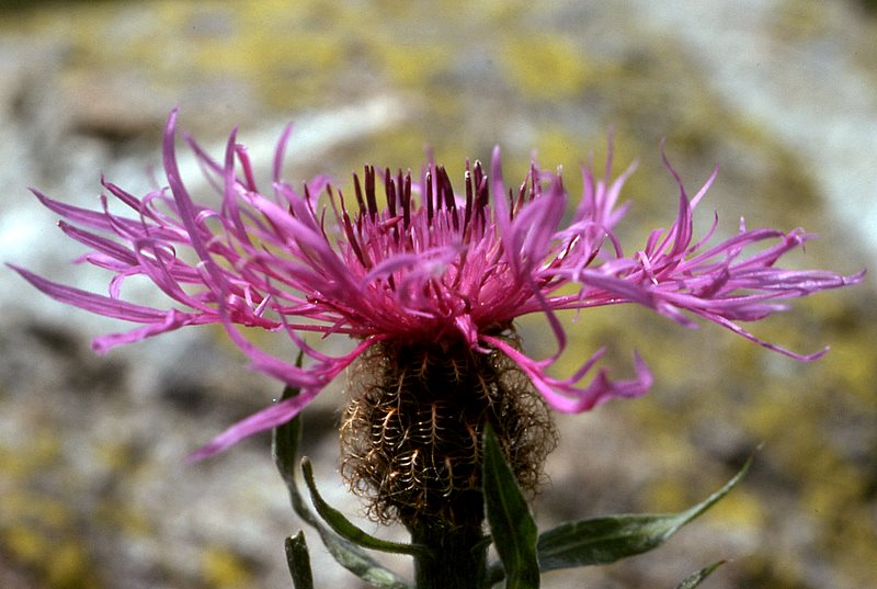 Centaurea nervosa - Flower